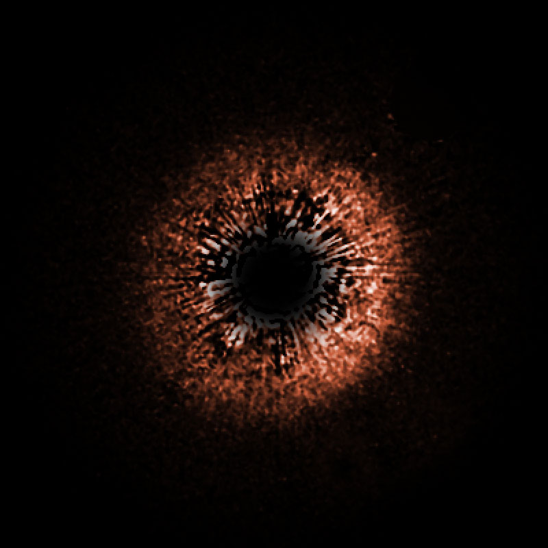 This is a false-color view by the Hubble Space Telescope of a planetary debris disk encircling the star HD 107146, a yellow dwarf star very similar to our Sun, though it is much younger (between 30 and 250 million years old, compared to the almost 5 billion years age of the Sun). The star is 88 light-years away from Earth. This is the only disk to have been imaged around a star so much like our own. The slight difference in brightness on one side of the disk is due to the fact that small dust particles scatter more light when they are between Earth and the star, rather than behind the star. This suggests that the bright side is closer to us. The disk is redder than the star whose light it reflects, indicating that it contains grains one two-thousandth of a millimeter in size (about 100 times smaller than household dust). Our Sun is believed to have a ring of dust around it, lying just beyond the orbit of Neptune, although it is ten times narrower than the one around HD 107146. Our solar system also has between 1,000 and 10,000 times less dust. The size of the ring, its the thickness, and the amount of dust make it unlikely that HD 107146 will ever evolve into a system like our own. This is interesting, as it shows that the planetary systems around the same kind of stars may have very different evolutionary paths.